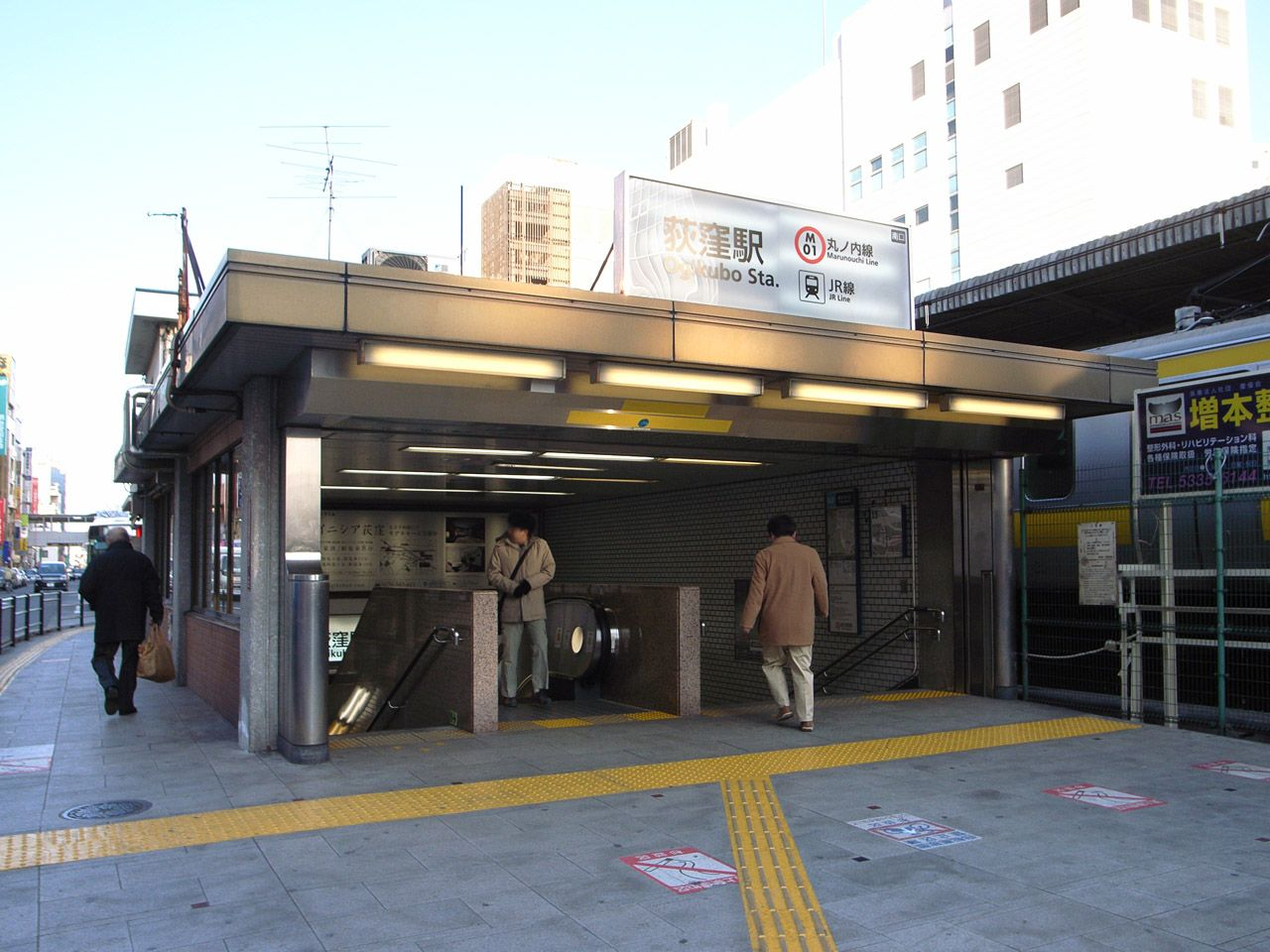 South Entrance of the Tokyo Metro Ogikubo Station in Suginami-ku, Tokyo, Japan